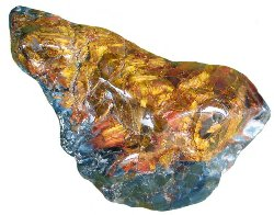 A digital photo of an Pietersite stone from China that I own, with the background whited out so only the object stone is shown